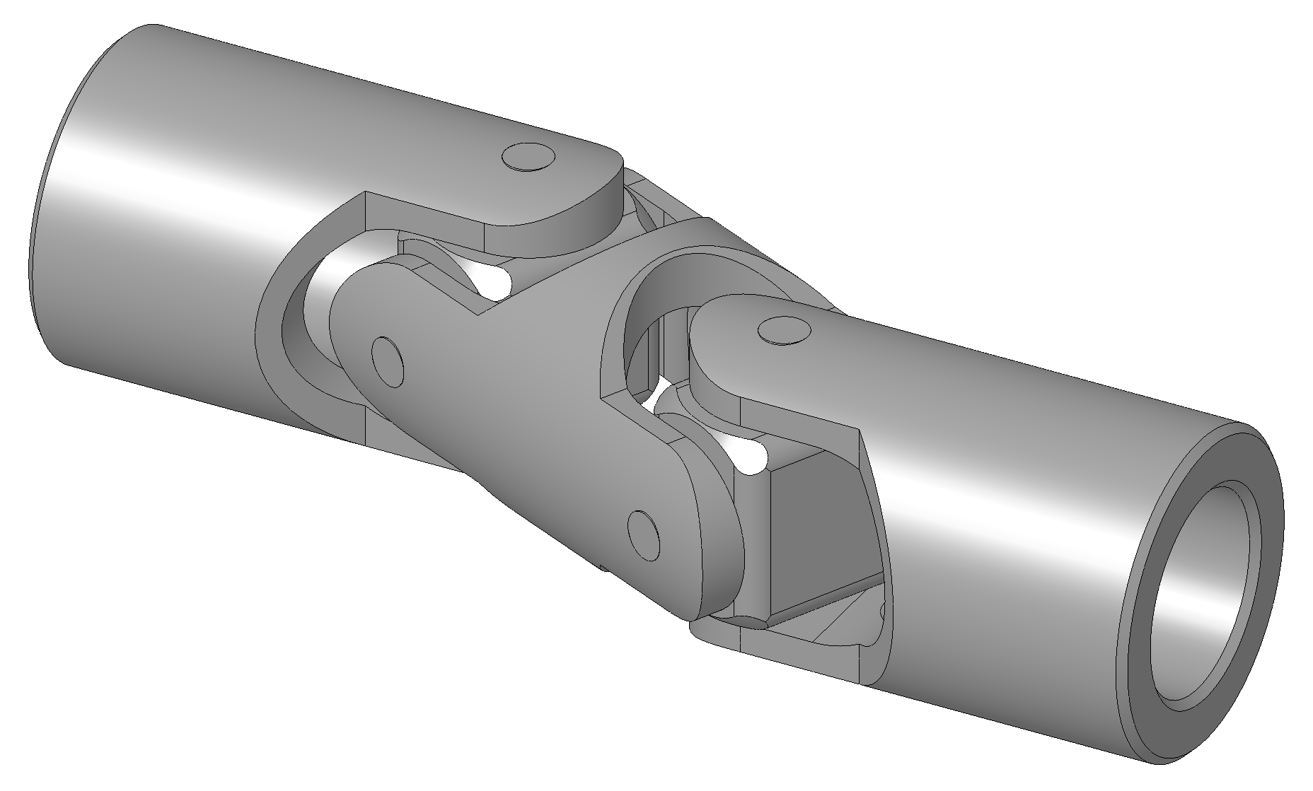 3D-view of a cardan joint according to DIN 808 (August 1984), type D (double) in z-arrangement.